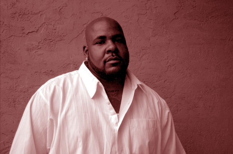 Lawrence Thomas aka PoohMan